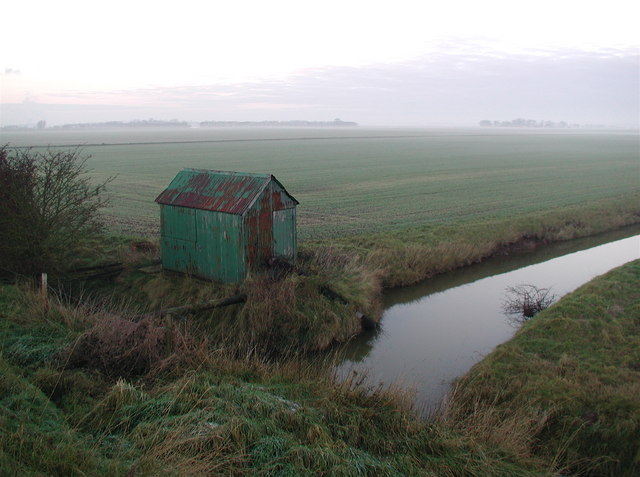 Cherry Cobb Sands, Paull, East Riding of Yorkshire, England.Field drainage just beyond the Humber bank to the west of New House Farm.